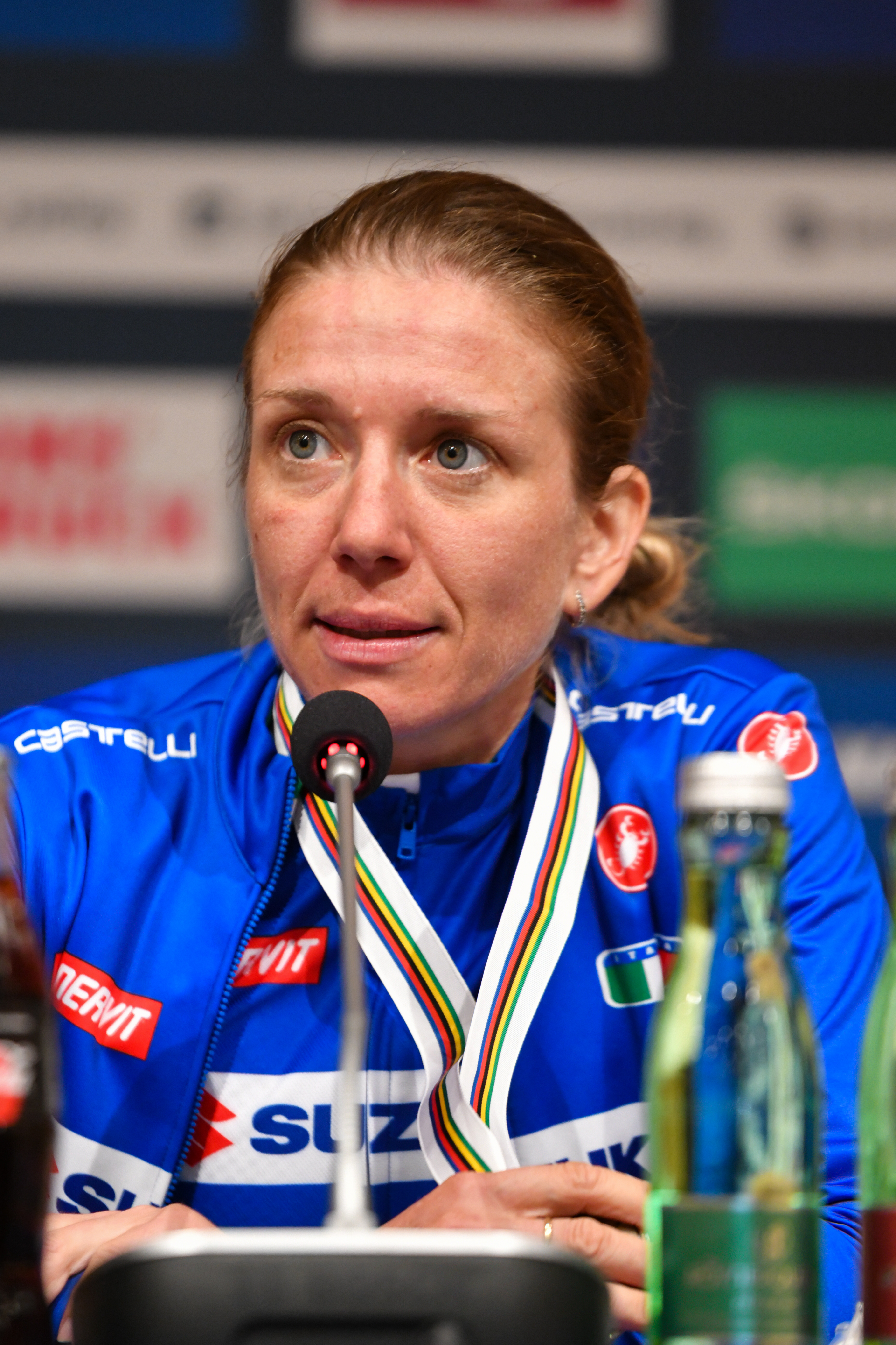 2018 UCI Road World Championships Innsbruck/Tirol Women Elite Road Race. Picture shows: Press conference, Tatiana Guderzo of Italy